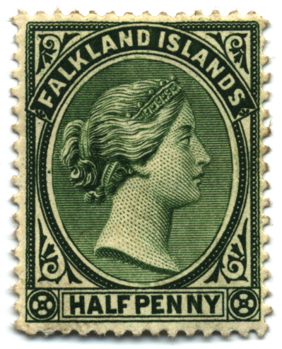 Scan of Falkland_Islands half-penny stamp of 1891